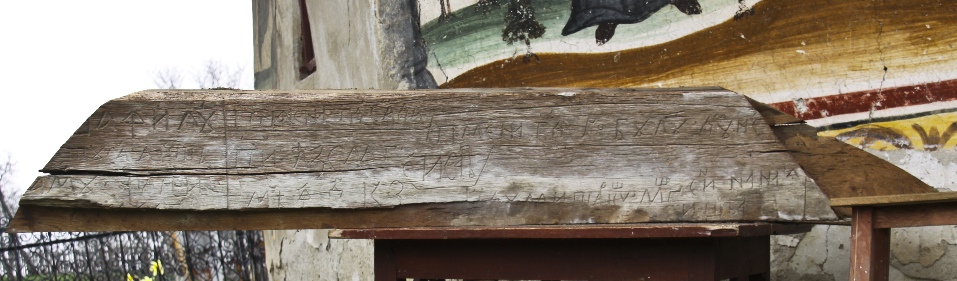 Voroveni, Argeş county, Romania: the wooden church.